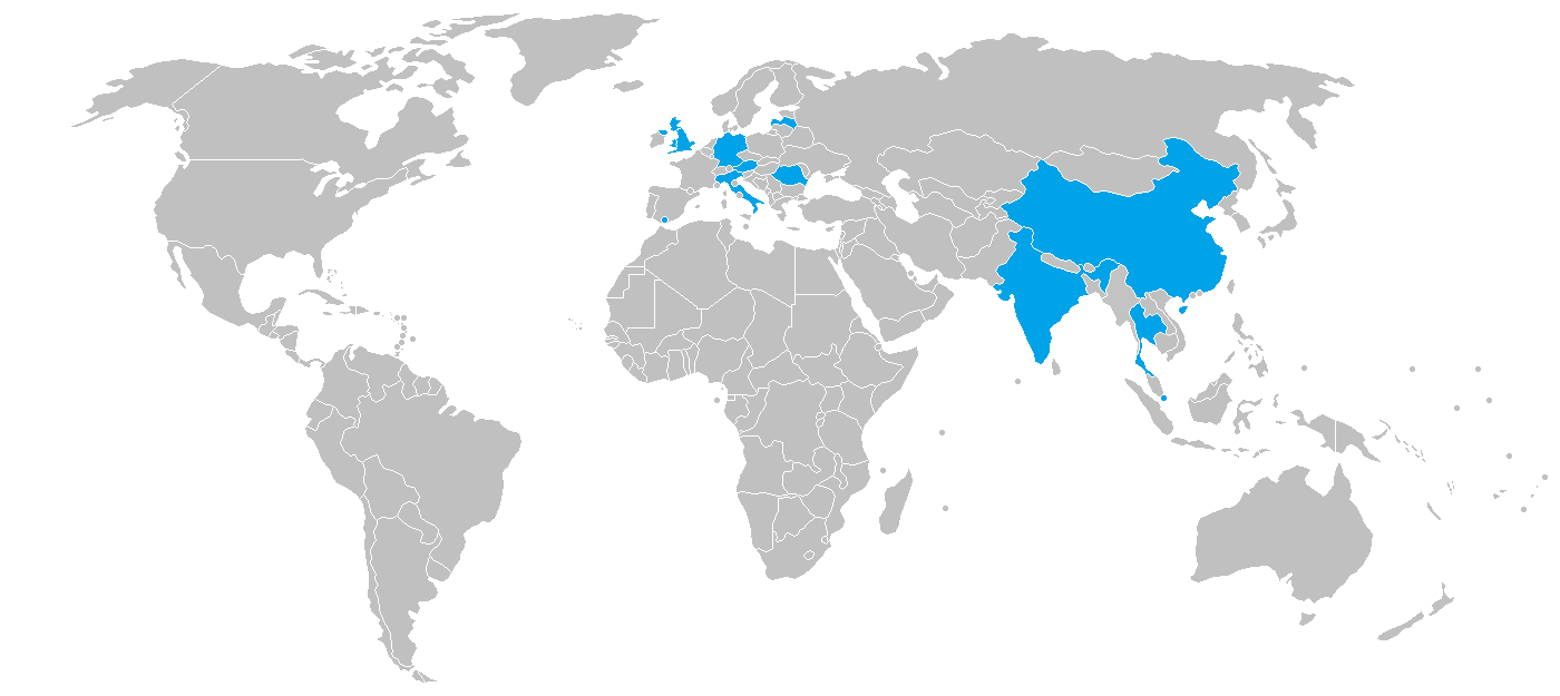 Nations hosting a World Snooker Tour event in 2016/17